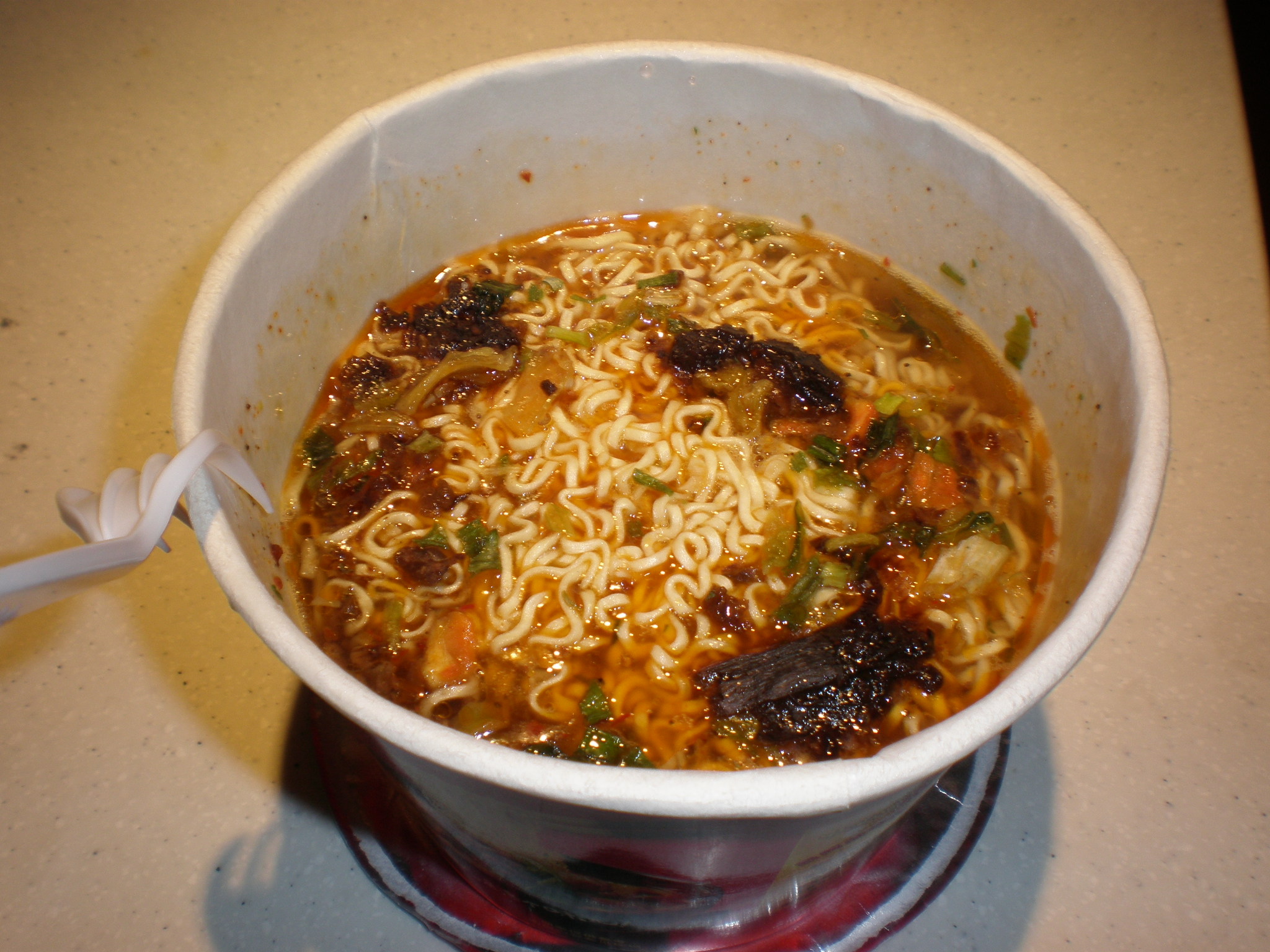 A cup of cooked Roasted Beef Noodle (unable to read manufacturer's name) sold in the cafeteria of the Minsk World military theme park in Shenzhen, China. The former Soviet aircraft carrier Minsk is the centerpiece of Minsk World.